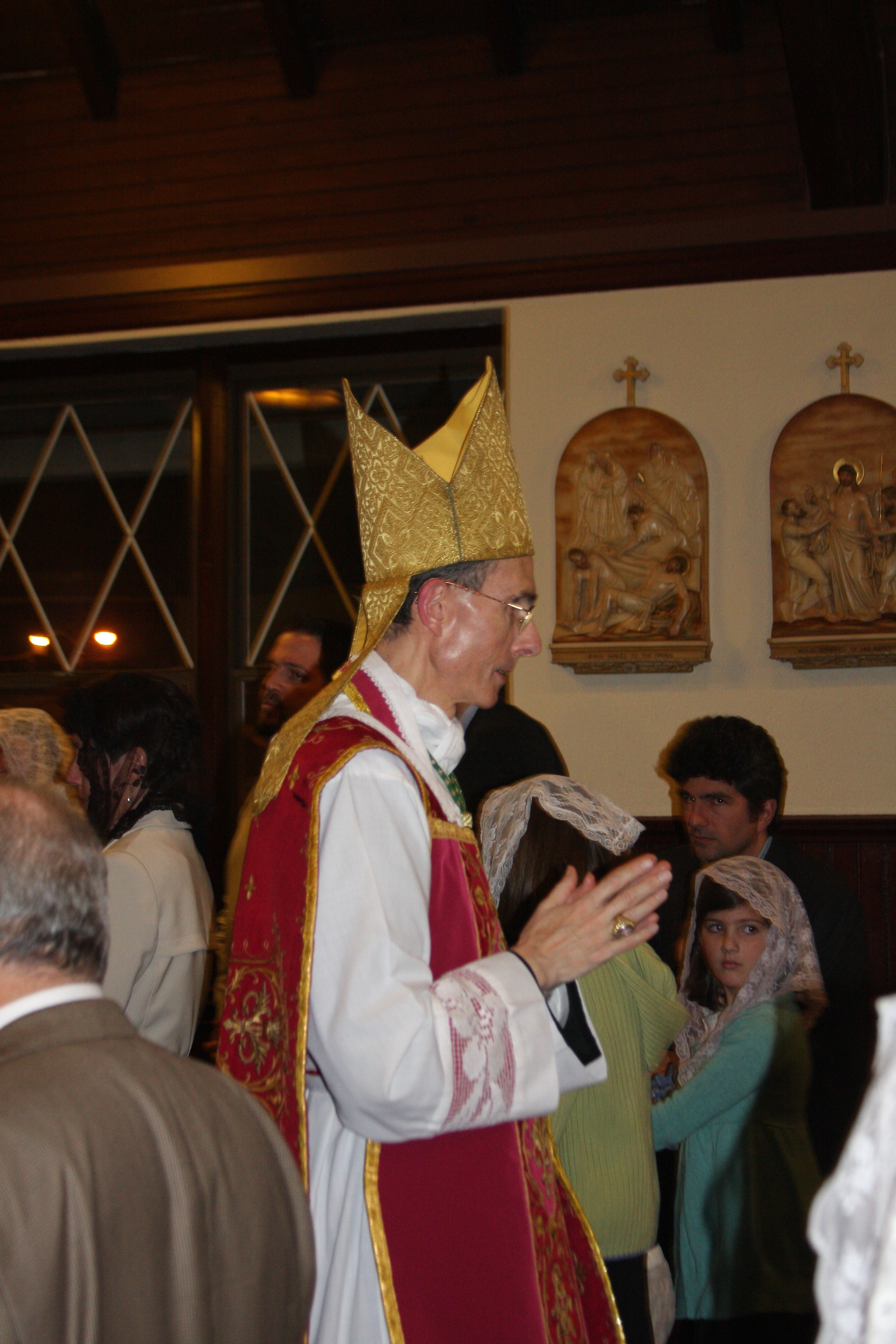 Mons. Bernard Tissier de Mallerais